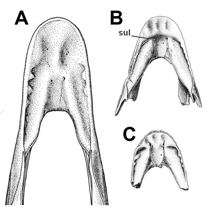 Mandibles of caenagnathids from Dinosaur Park Formation. A, NMC 8776, holotype of Caenagnathus collinsi Sternberg, 1932; B, RTMP 92.36.390 ("C." sternbergi); C, RTMP 91.144.1 ("C." sternbergi). After Currie, Godfey and Nessov, 1994.